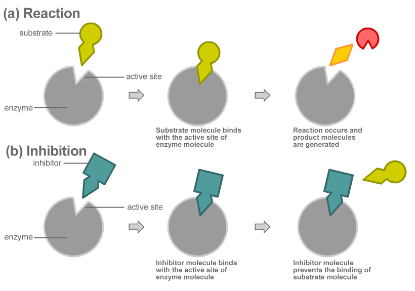 Created by Jerry Crimson Mann 18:13, 1 August 2005 (UTC).